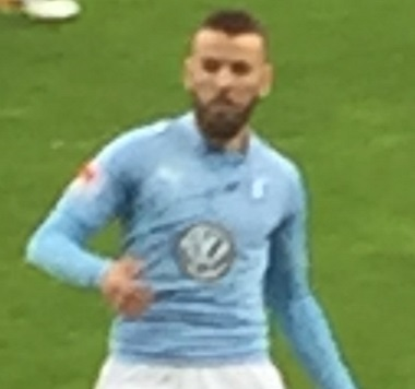 Erdal Rakip playing for Malmö FF in a friendly vs. AGF. July 4th 2016